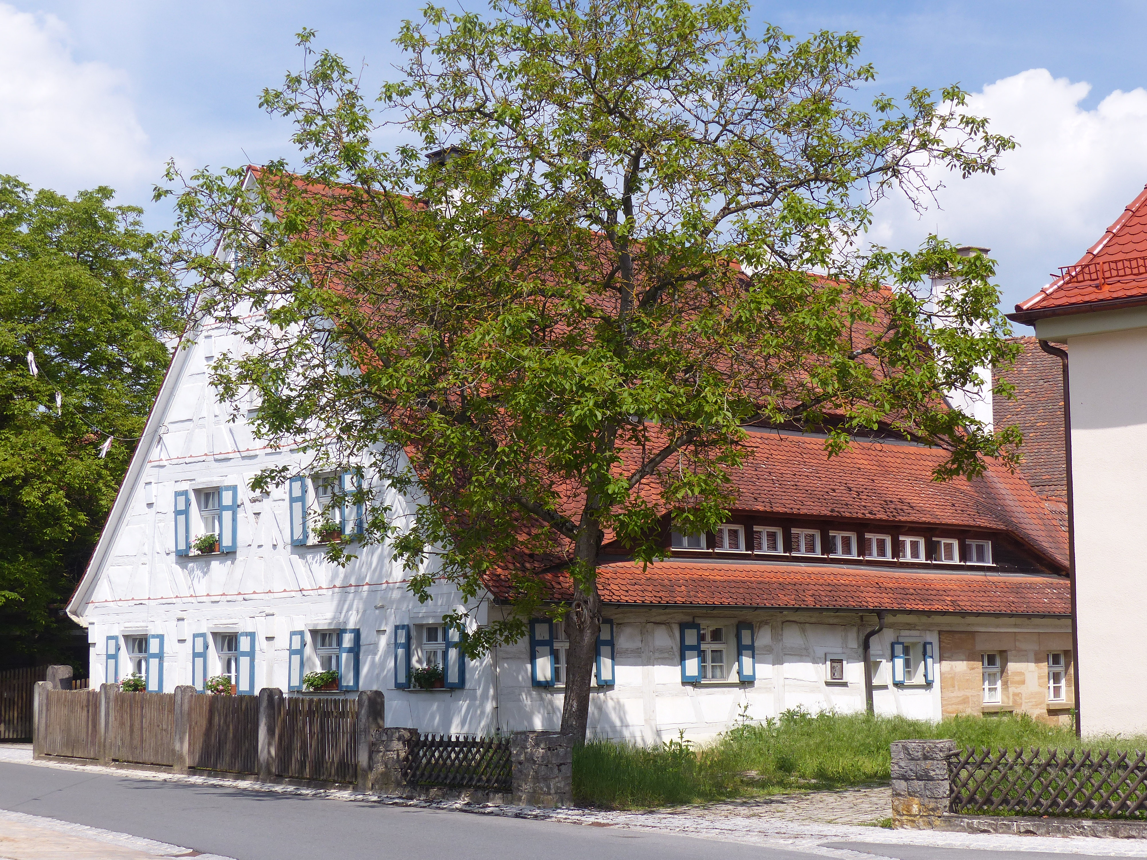 A farmhouse in the village Honings, a district of the municipality of Hetzles.